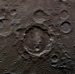 Magritte crater on Mercury. Cropped from larger image EW0264237830G.